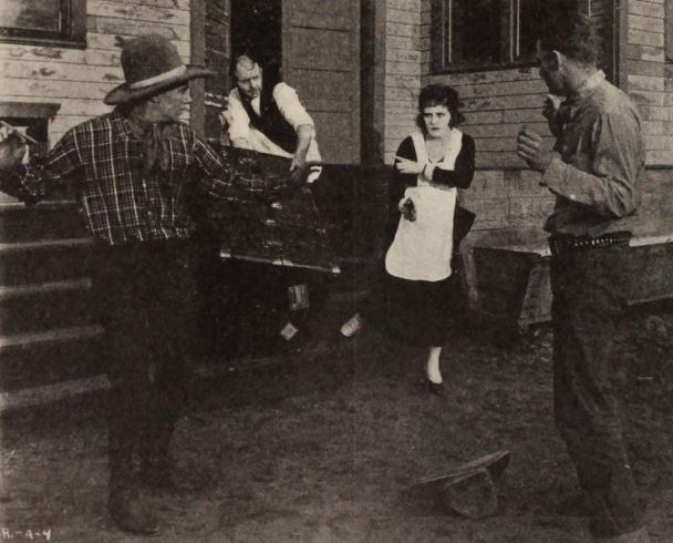 Still from the American western serial film Ruth of the Rockies (1920) with Ruth Roland, the actors are not identified, on page 81 of the September 11, 1920 Exhibitors Herald.